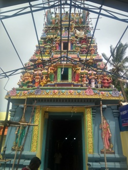 Koothanur sarasvathitemple கூத்தனூர் சரஸ்வதி கோயில்